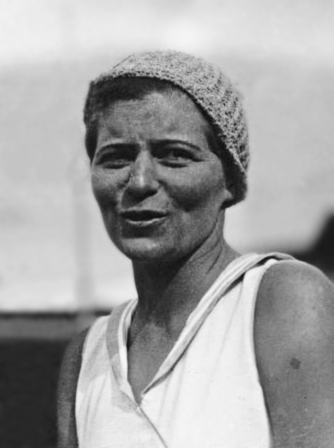 Fraulein Elli Beinhorn at the opening of the William Jolly Bridge in 1932 24-year old German aviatrix Fraulein Elli Beinhorn, who was presented to the Governor, Sir John Goodwin, at the opening of the William Jolly Bridge on Wednesday 30 March 1932. Fraulein Beinhorn had just completed a solo flight from Berlin to Australia. She started her flight in Berlin on 4 December 1931 and arrived at Archerfield Aerodrome on 29 March 1932. She flew a Klemm 80 h.p. monoplane. (Description supplied with photograph.).